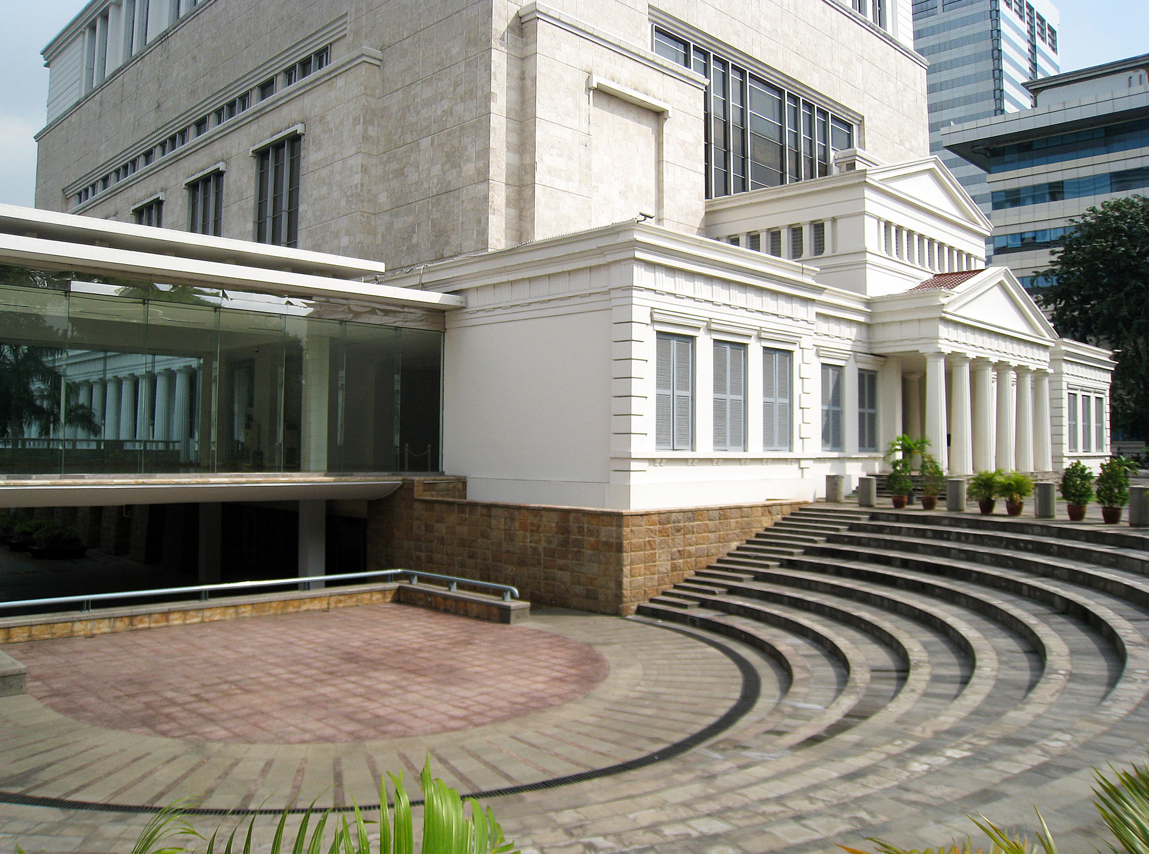 Gedung Arca, the new wing of National Museum of Indonesia, Jakarta. On the foreground is outdoor theatre and on left is glass-walled bridge connecting old and new wing.